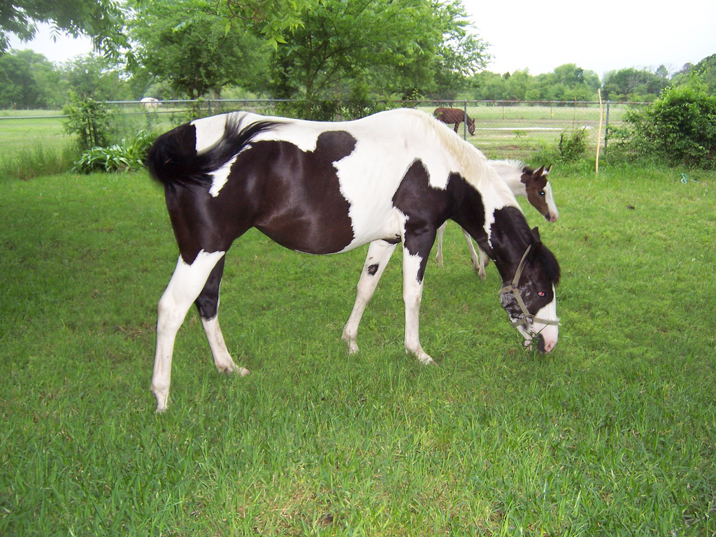 One month old today. This is how we mow the grass in our yard. It beats putting gas in and pushing a mower! American Indian Horse Registry, Tobiano Paint. Mare Born 06/02/2005